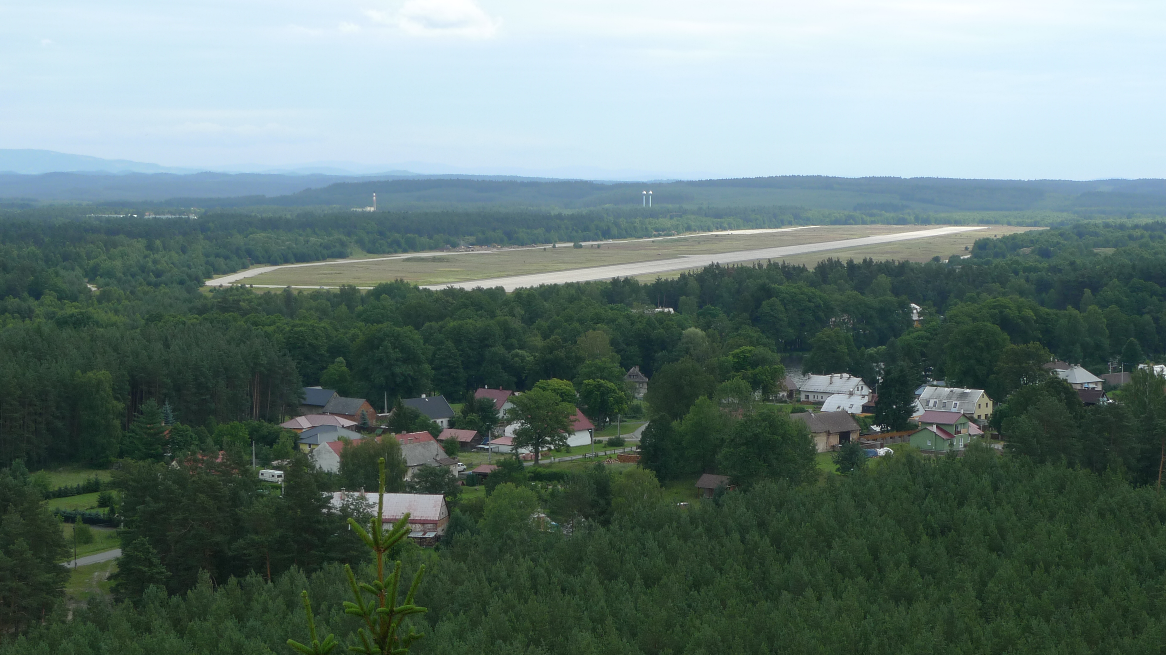 Hradčany military airport in 2011, Czech Republic